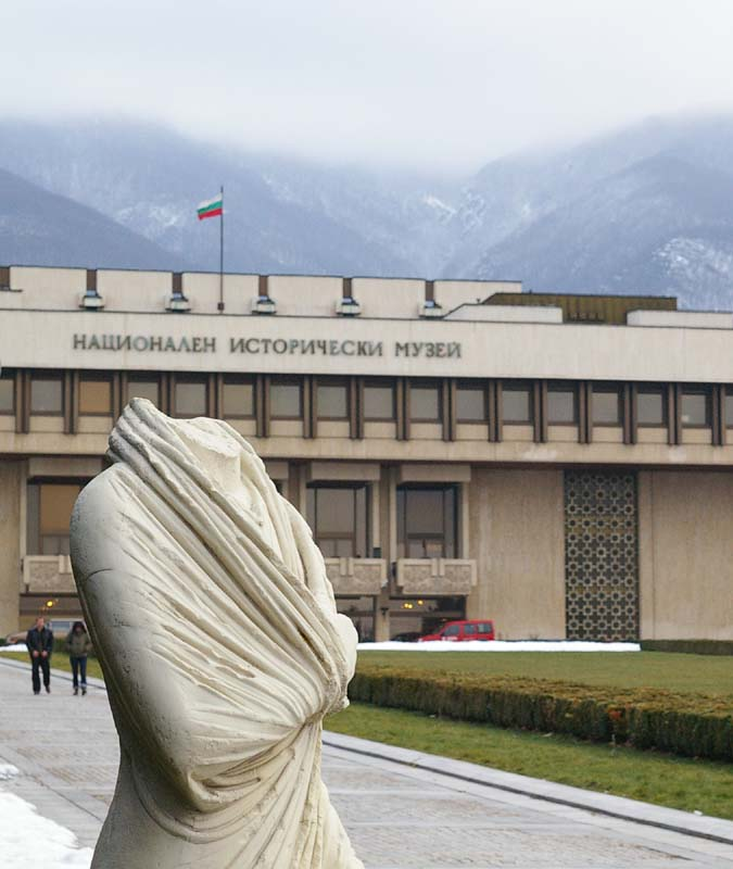 Nationa History Museum of Bulgaria with Vitosha in the background